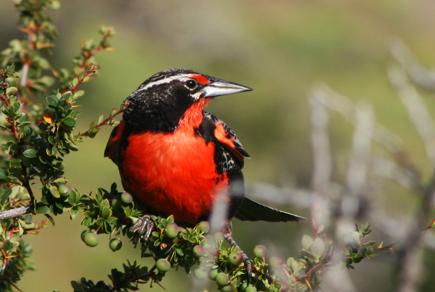 Sturnella loyca in Torres del Paine